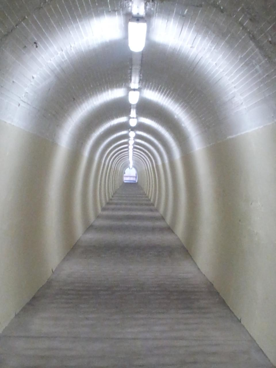 Whanganui, Durie Hill lift.